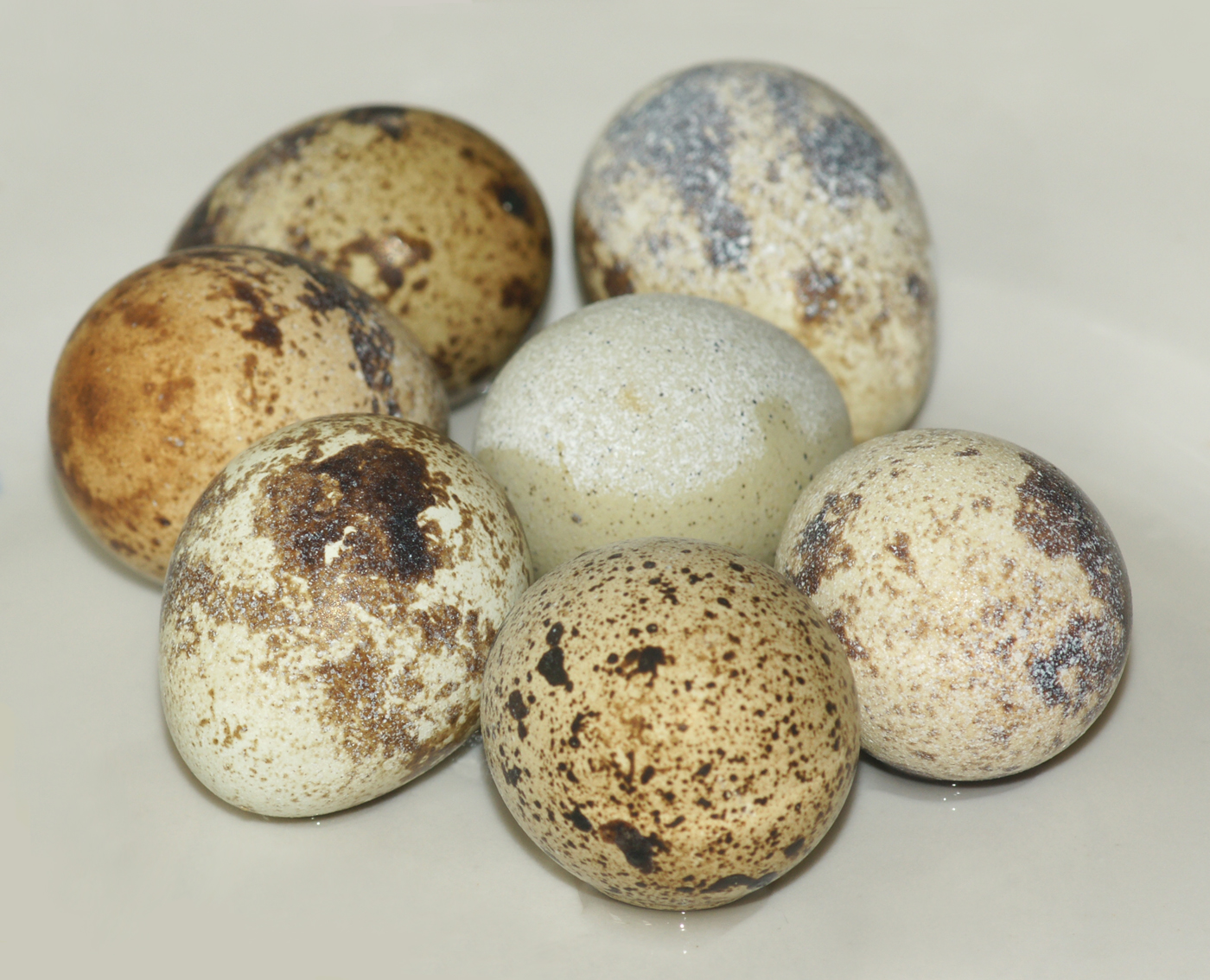 Common Quail eggs